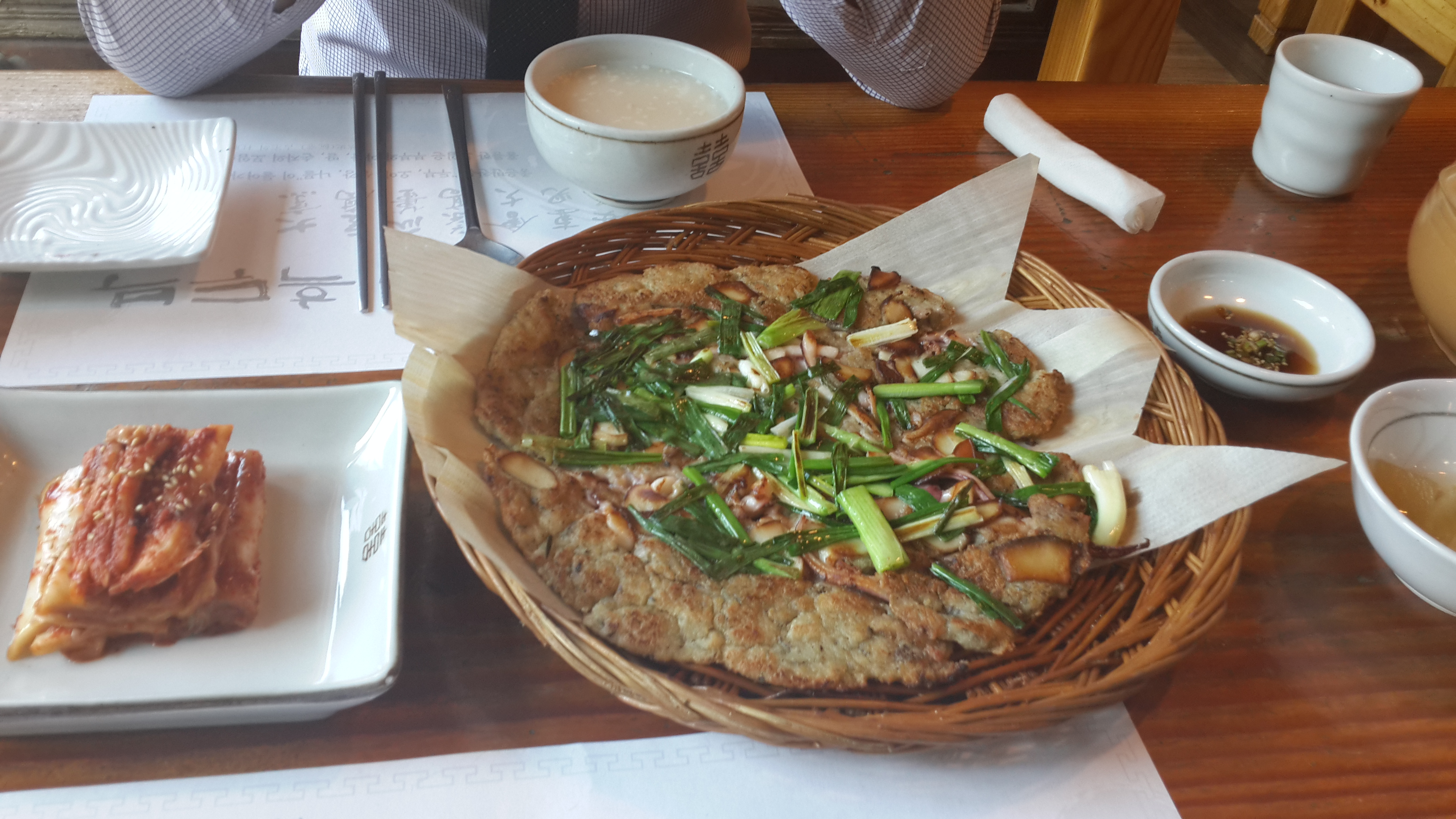 Kongbiji jeon. A Korean dish of jeon made of using biji (okara). Shallots are usually put together.